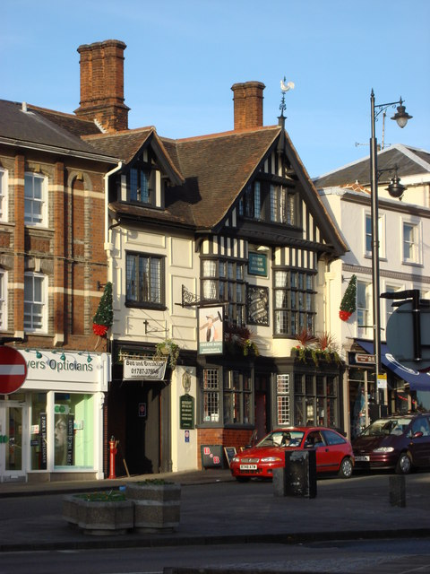 The Black Boy Hotel, Sudbury, Suffolk as refurbished by John Shewell Corder